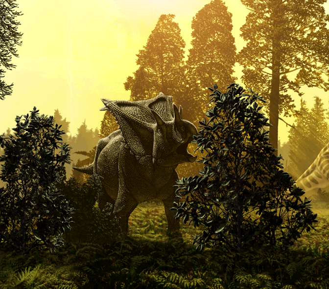 Depiction of dietary niche partitioning among megaherbivorous dinosaurs from the DPF (MAZ-2). Left to right: Chasmosaurus belli, Lambeosaurus lambei, Styracosaurus albertensis, Scolosaurus cutleri (formerly sunk in Euoplocephalus tutus), Prosaurolophus maximus, Panoplosaurus mirus. A herd of S. albertensis looms in the background.